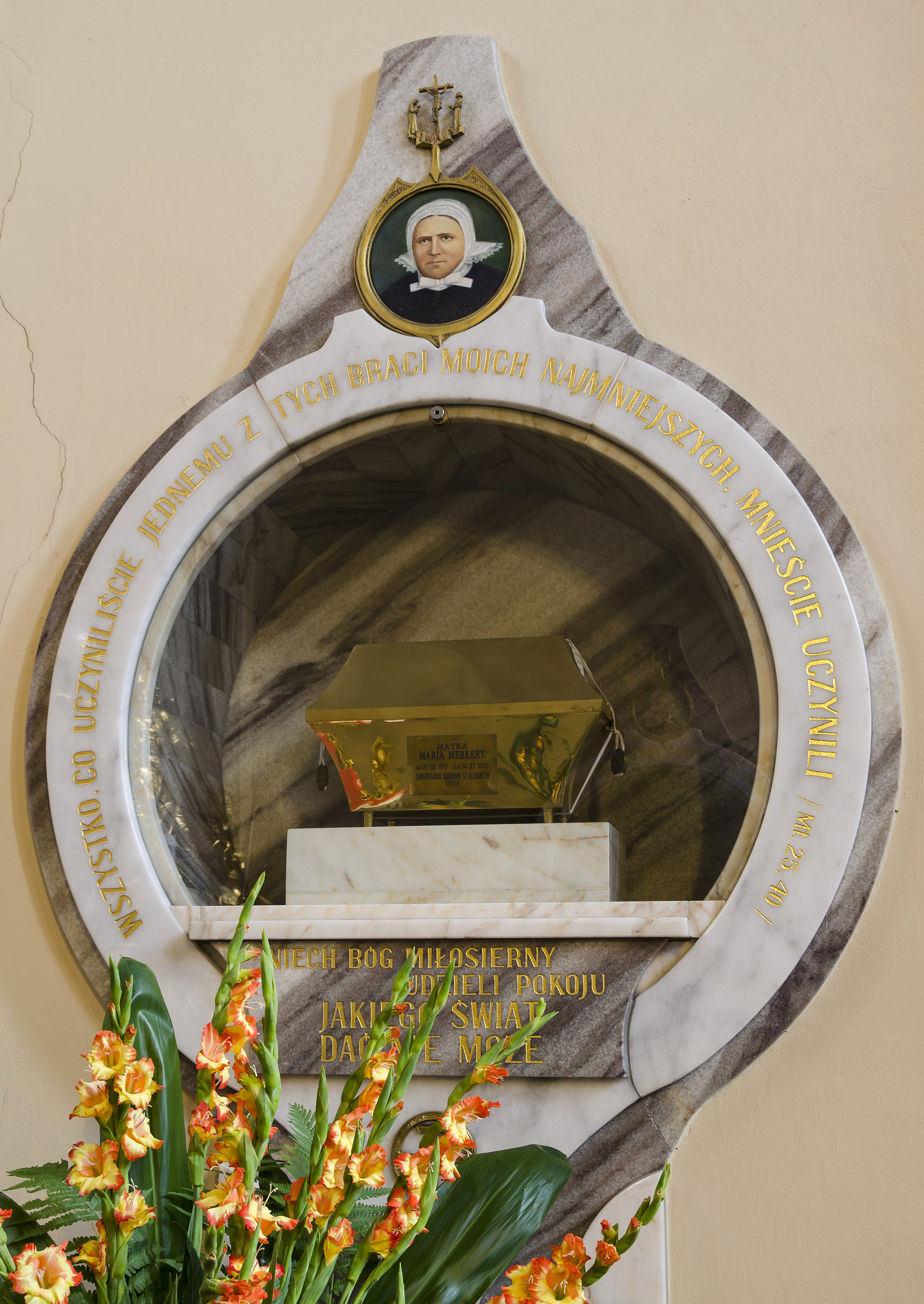 Saints James and Agnes Basilica in Nysa, Maria Merkert reliquary